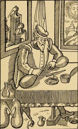 A 16th century alchemist at work in the ante-room of his laboratory, fixing a portion of his apparatus. On the table is his luting box and knife. His laboratory is visible through the window with various-sized stills.